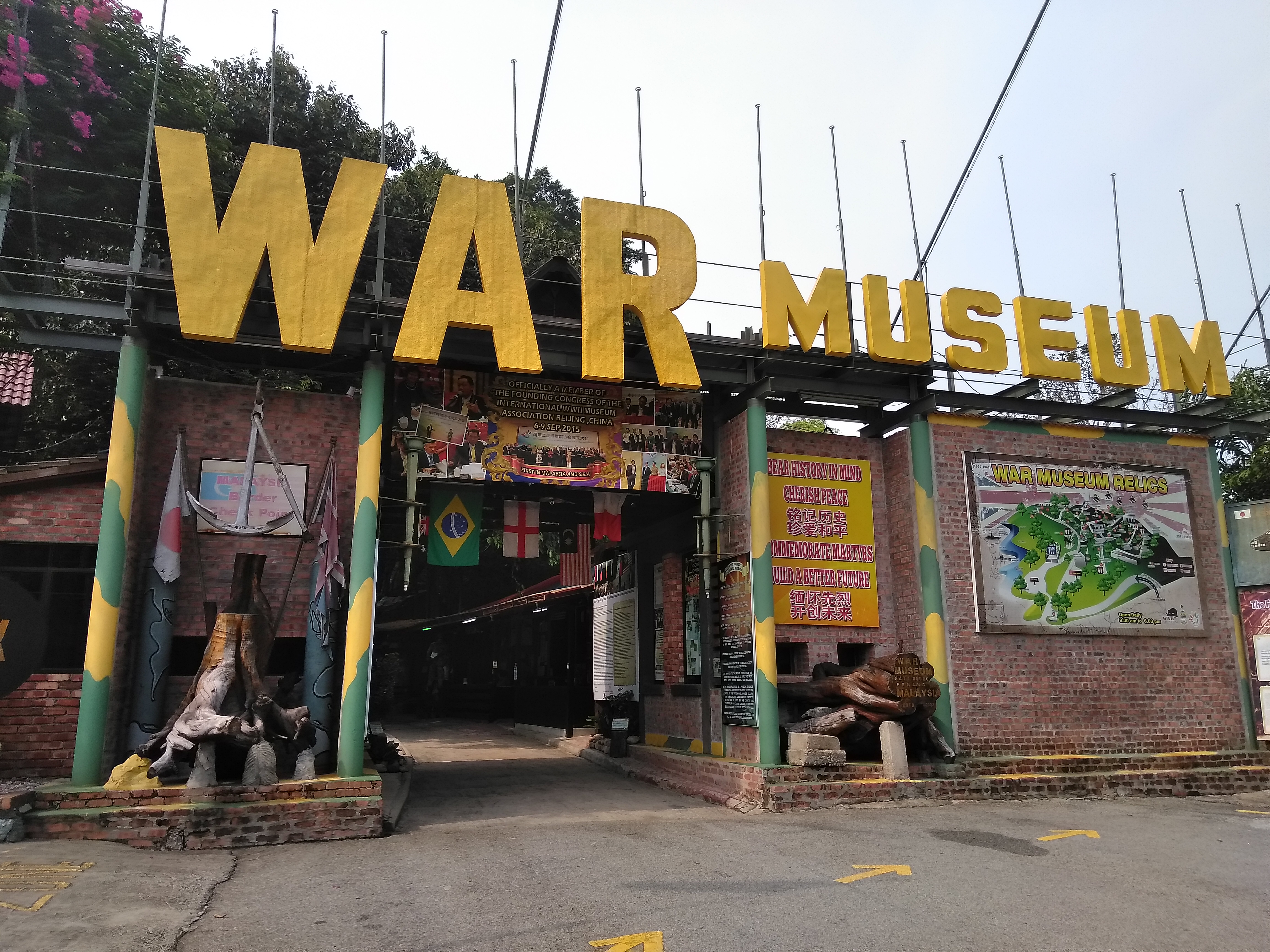 Penang War Museum